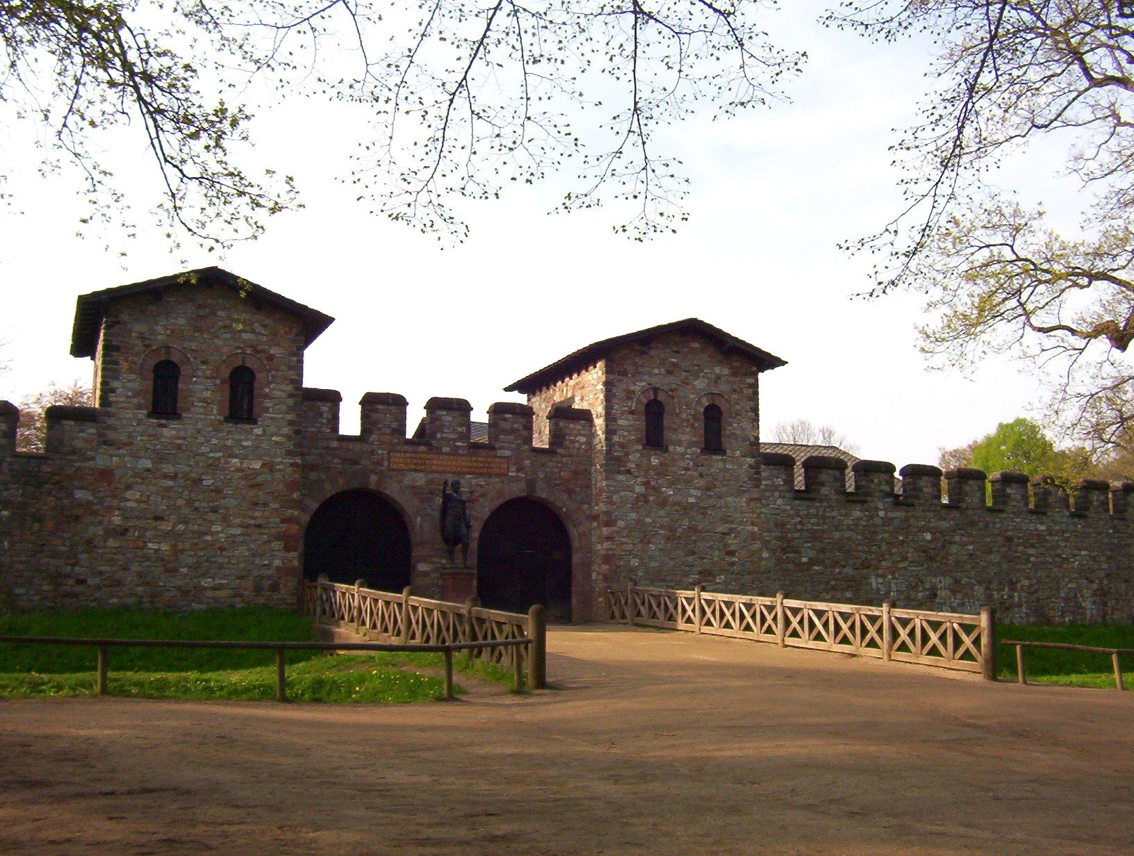 Germany / near Bad Homburg: Kastell Saalburg (reconstructed Roman fort)